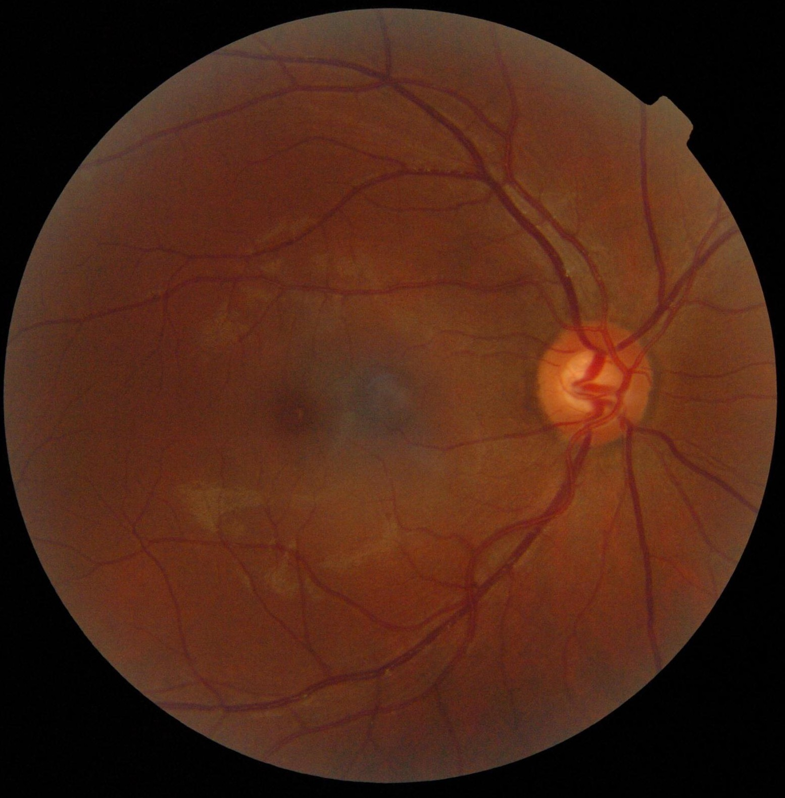 Self made ophtalmogram of the retina of the right eye. It shows the optic disc as a bright area on the right (nasal side) where blood vessels converge. The spot to the left (temporal side) of the centre is the macula. The grey, more diffuse spot in the centre is a shadow artifact.